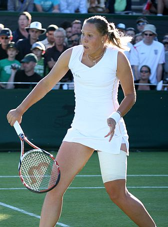 Lucie Hradecká against Ana Ivanović in the 2009 Wimbledon Championships first round